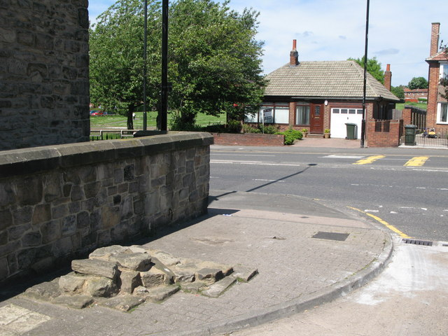 (A very small part of) Hadrian's Wall, 3 km from Blaydon, Gateshead, Great Britain. This is the first section of Hadrian's Wall to be seen to the west of Newcastle. It lies in the forecourt of a petrol station at the southwest of the roundabout at the junction of West Road and Denton Road.